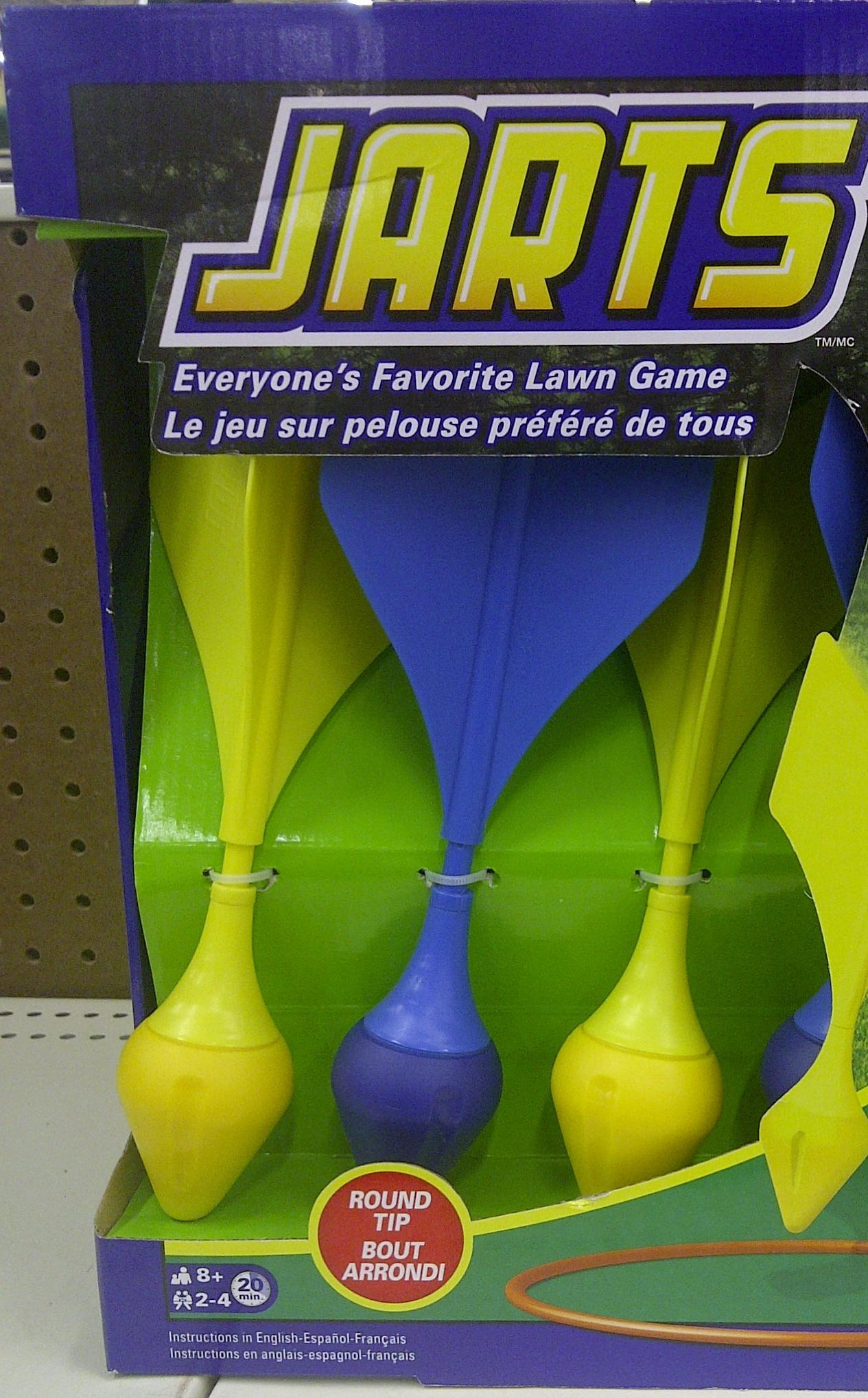 Jarts for sale in Canada